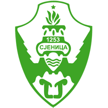 Coat of Arms of the city and municipality of Sjenica, Serbia